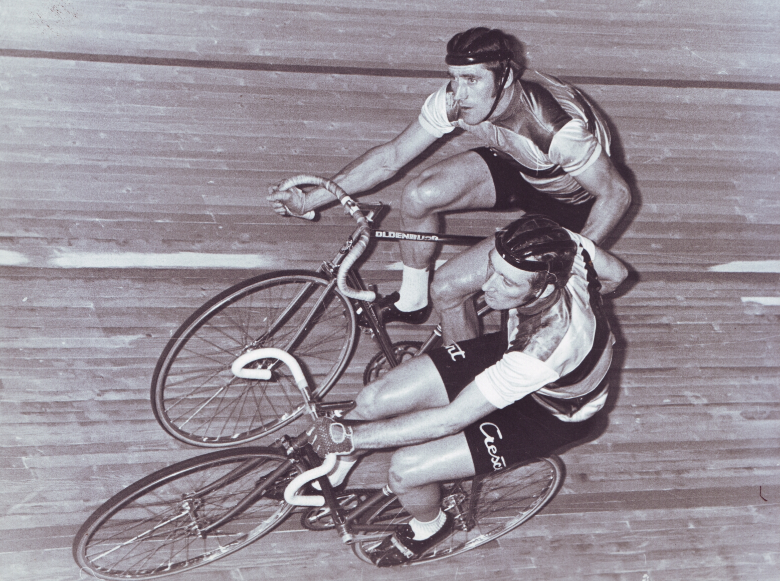 Otto Bennewitz and Horst Oldenburg, German cyclists